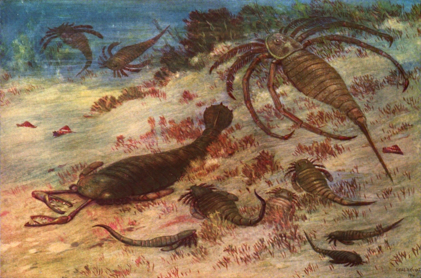 DOLICHOPTERUS, PTERYGOTUS, EUSARCUS, STYLONURUS, EURYPTERUS, HUGHMILLERIA. Title: Eurypterid genera of New York. Signature: Chas. R. Knight 1910